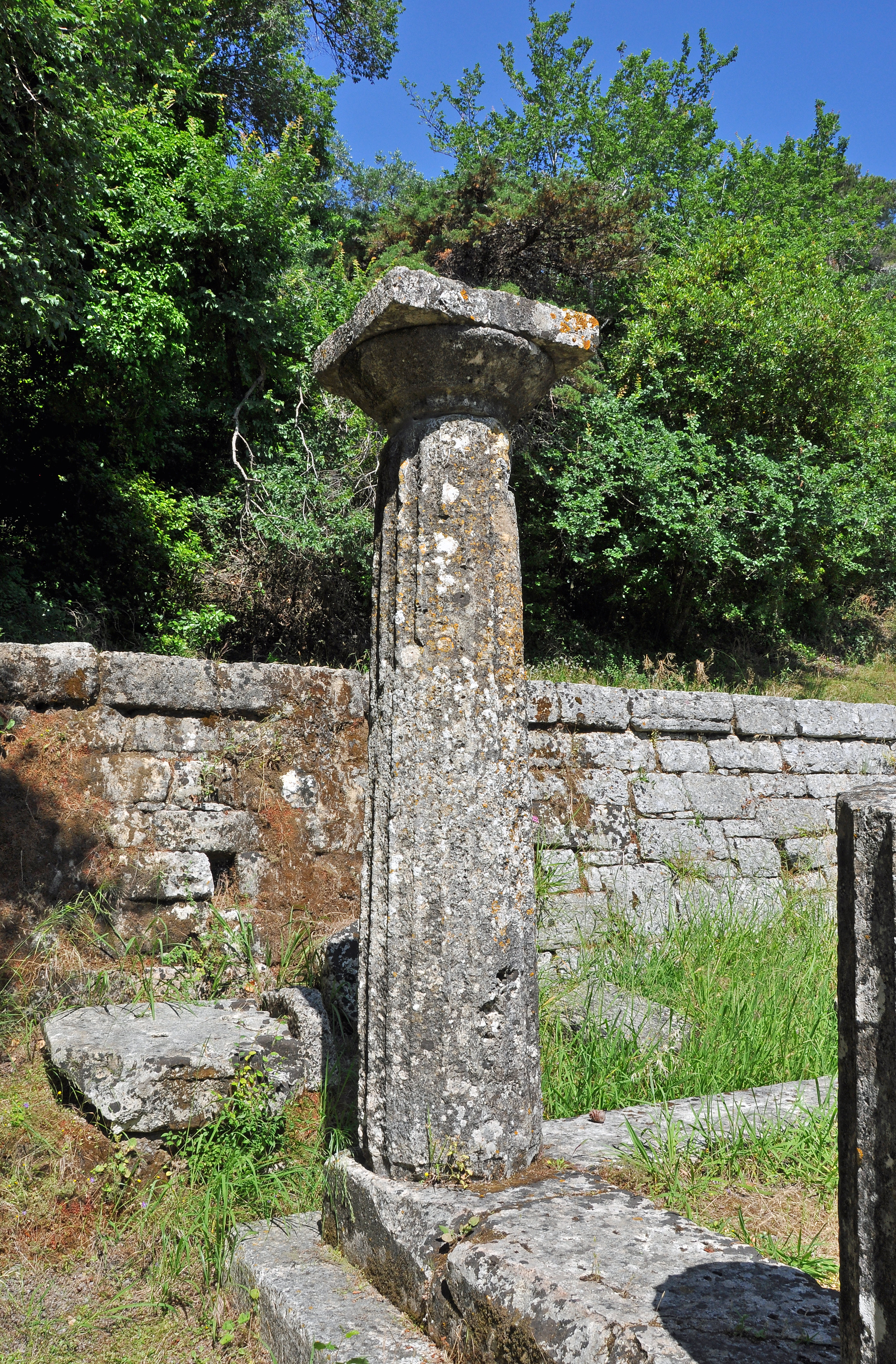 Corfu (Greece): former royal estate 'Mon Repos' - ruins of an ancient temple